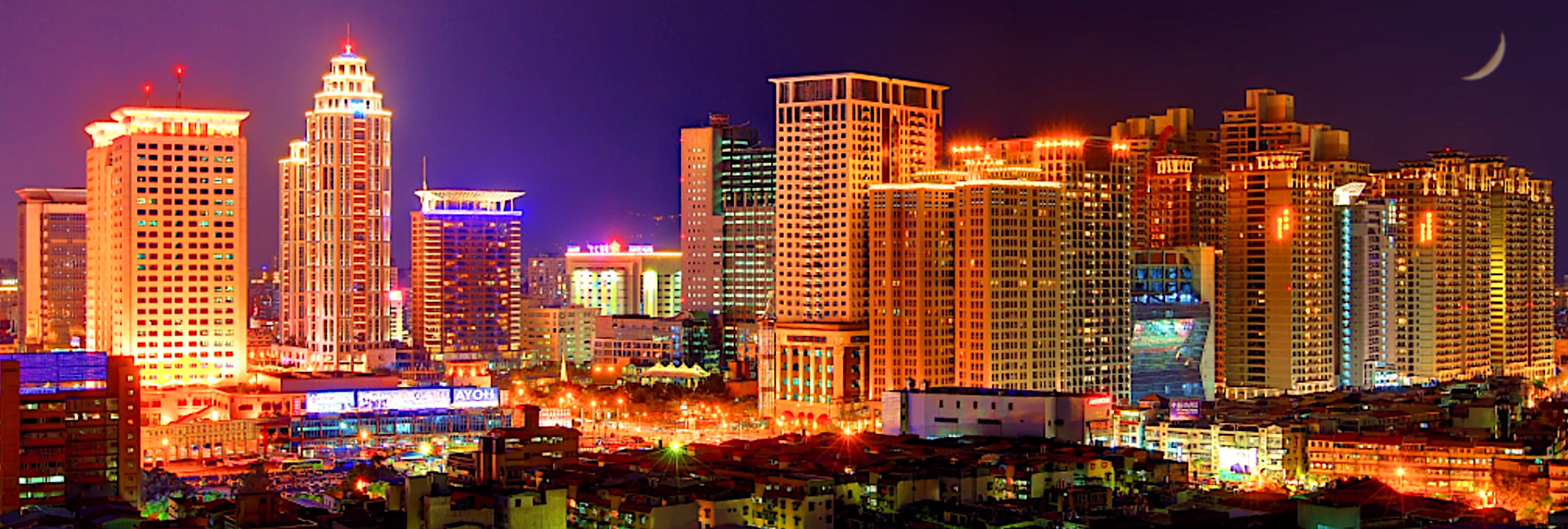 Banqiao District, New Taipei City, Taiwan skyline with many skyscrapers